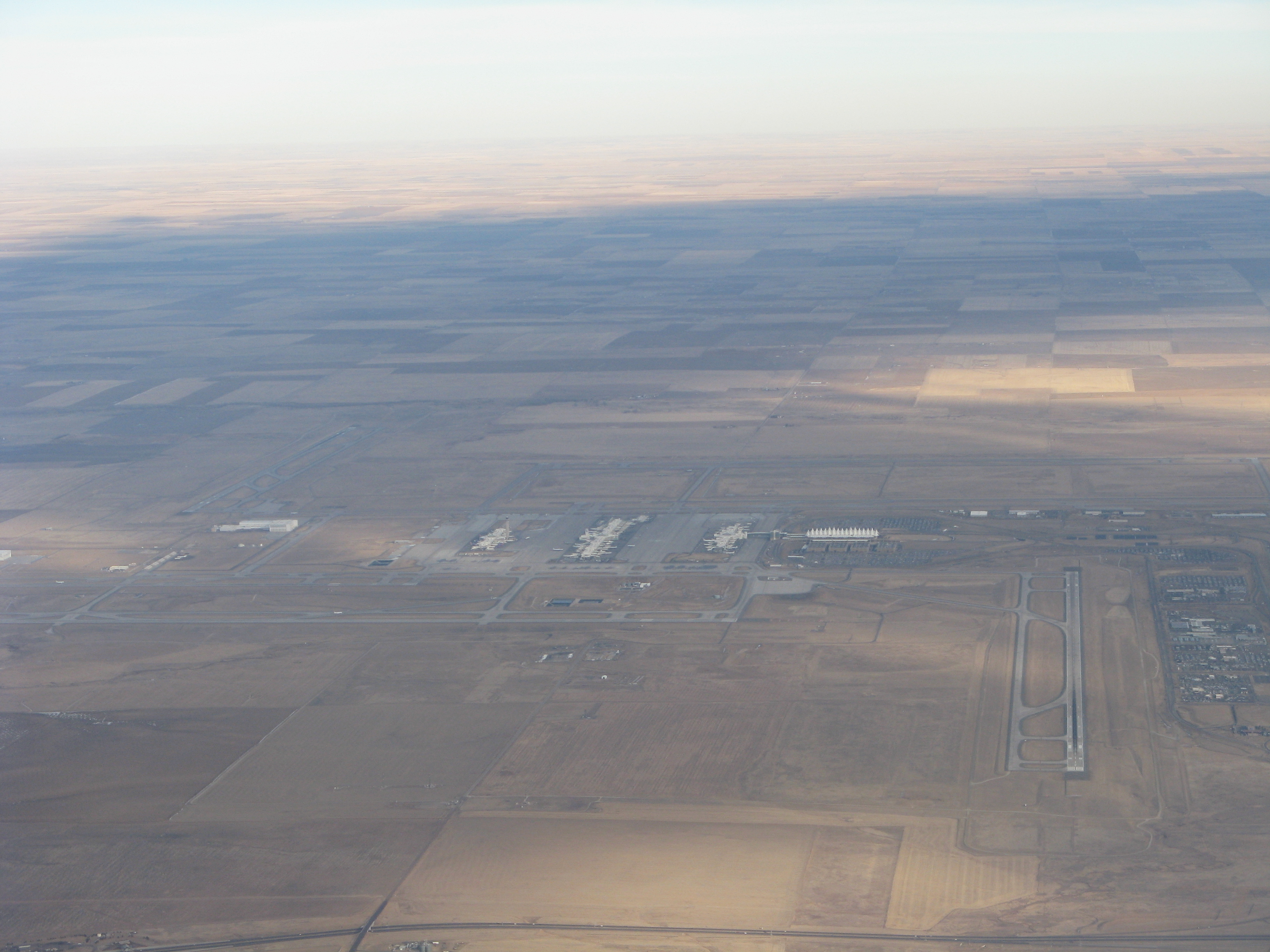 Aerial view of Denver International Airport